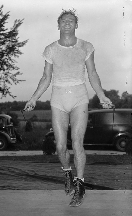 Middleweight champion expert rope skipper. Washington D.C. July 16. Rope skipping plays an important part in the training program of middleweight champion Freddie Steele, as he prepares for his coming battle on July 20 with Hobo Williams at Griffith Stadium. The championship will be at stake in the fight which is being sponsored by the Variety Club of Washington. 7/16/37 (original text from the Library of Congress)